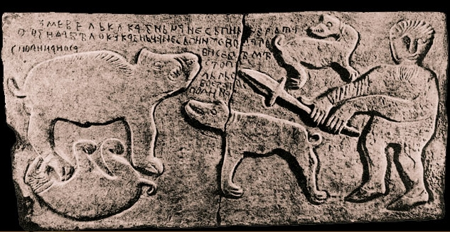 Early 12th century plate found in Malo Čajno, Visoko, depicting kaznac Nespina